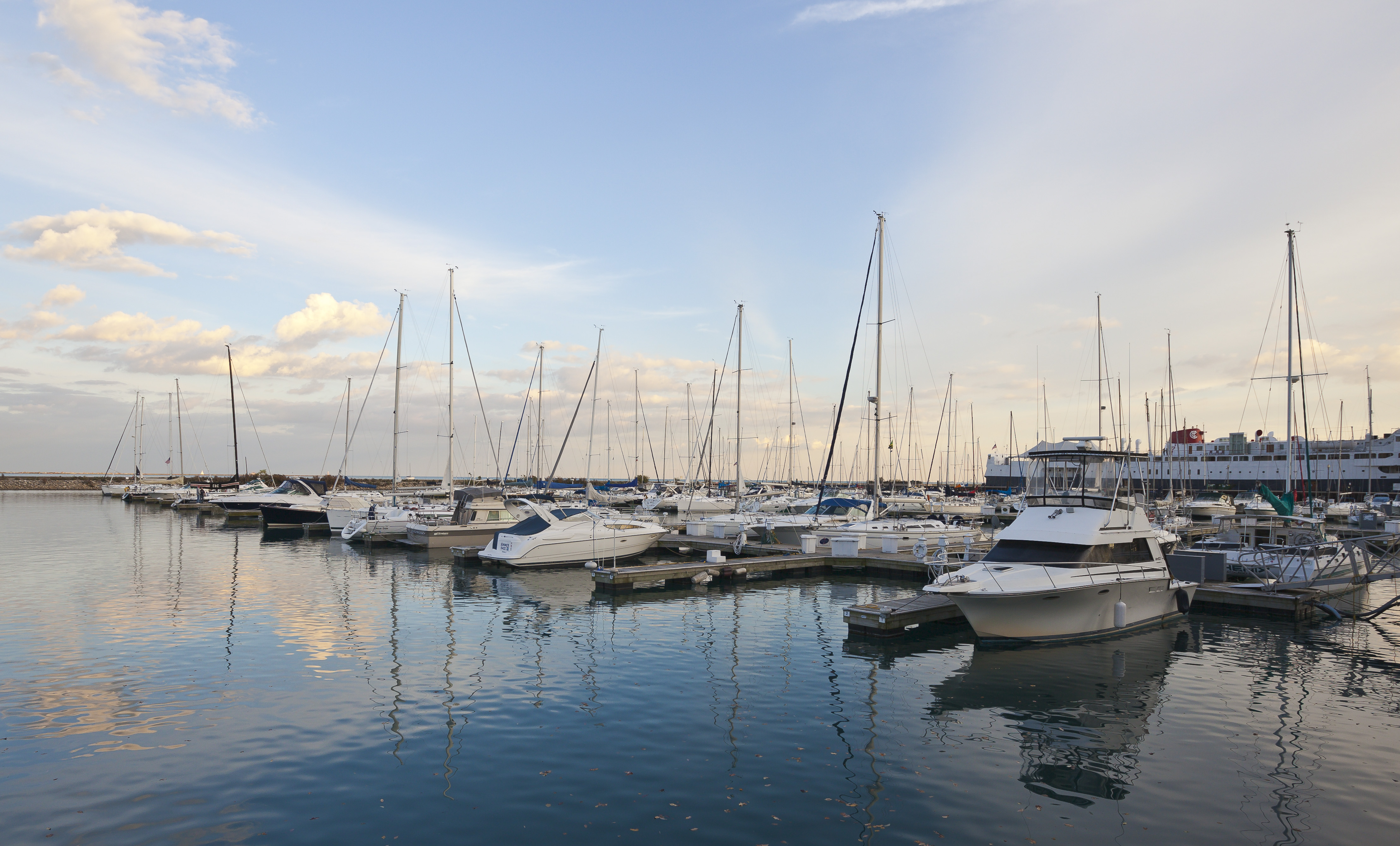 Monroe Harbor, Chicago, Illinois, USA